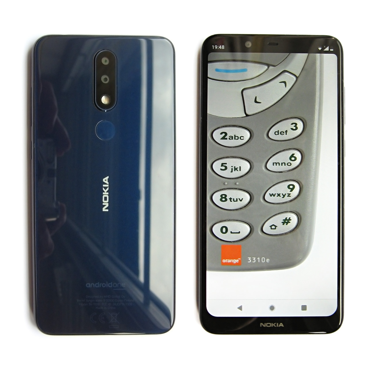 Nokia 5.1 Plus smartphone in blue, showing both front and rear. Manufactured under license by HMD Global, purchased on the UK market in 2019. (On-screen image is a Nokia 3310 phone from 2001.)